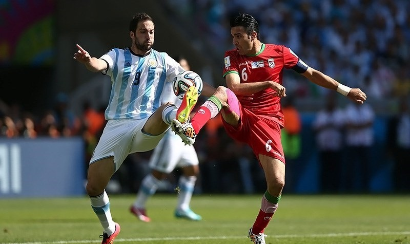 Iran and Argentina national football teams match, 2014 FIFA World Cup Group F